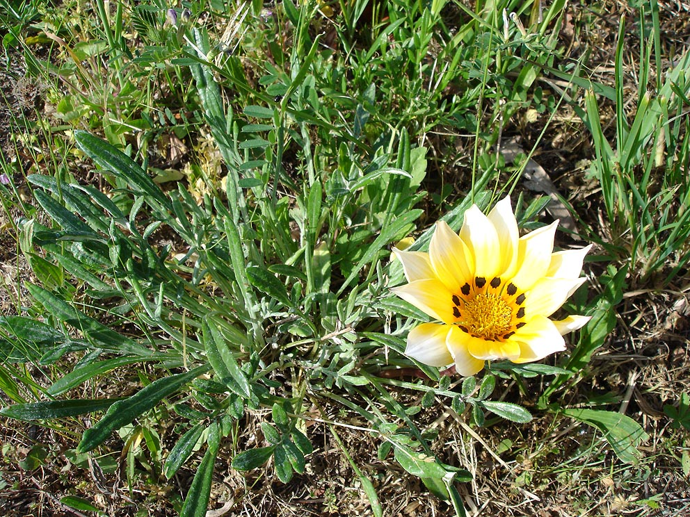 Unidentified Gazania. Probable hybrid. Not G. rigens nor G. rigida